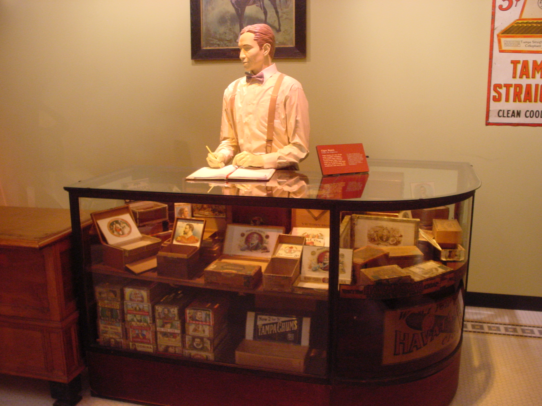 Part of the walk through Cigar City display at the Tampa Bay History Center in Tampa, Florida.